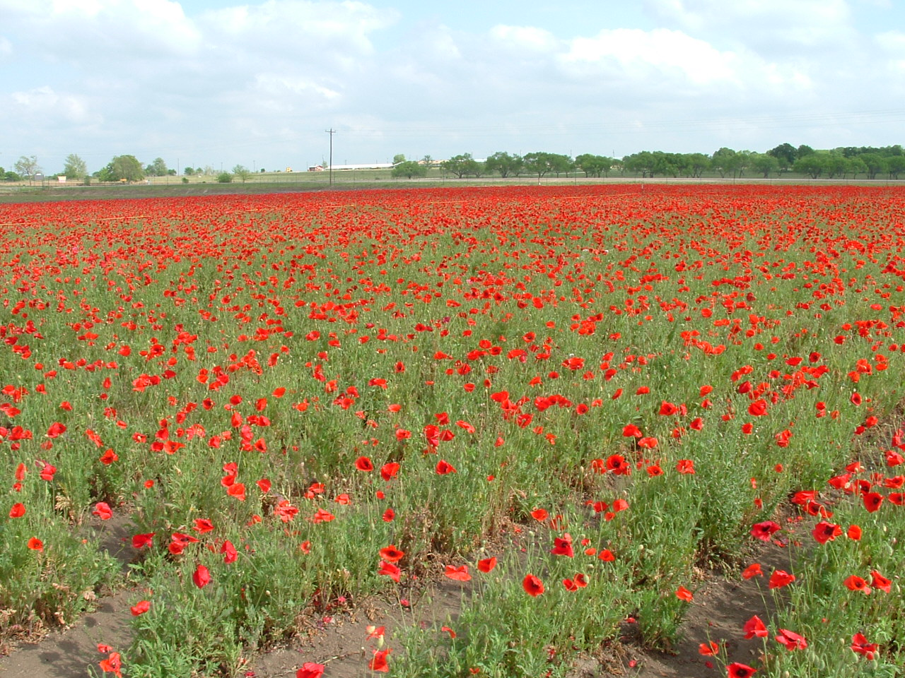 Poppy field (Papaver rhoeas), Wildseed Farms, near Fredericksburg, Texas, USA